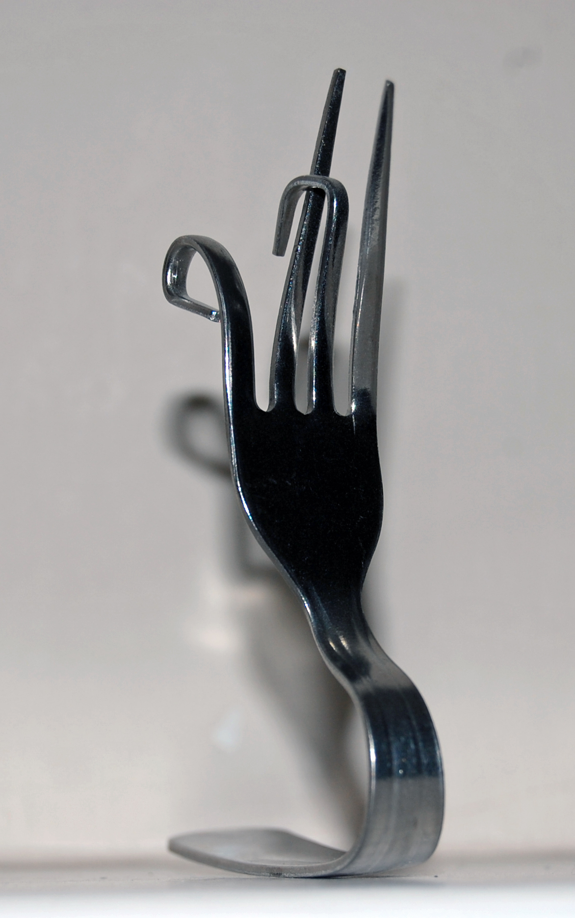 Fork bent by James Randi